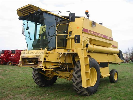 نموذج حصادة في كرناز